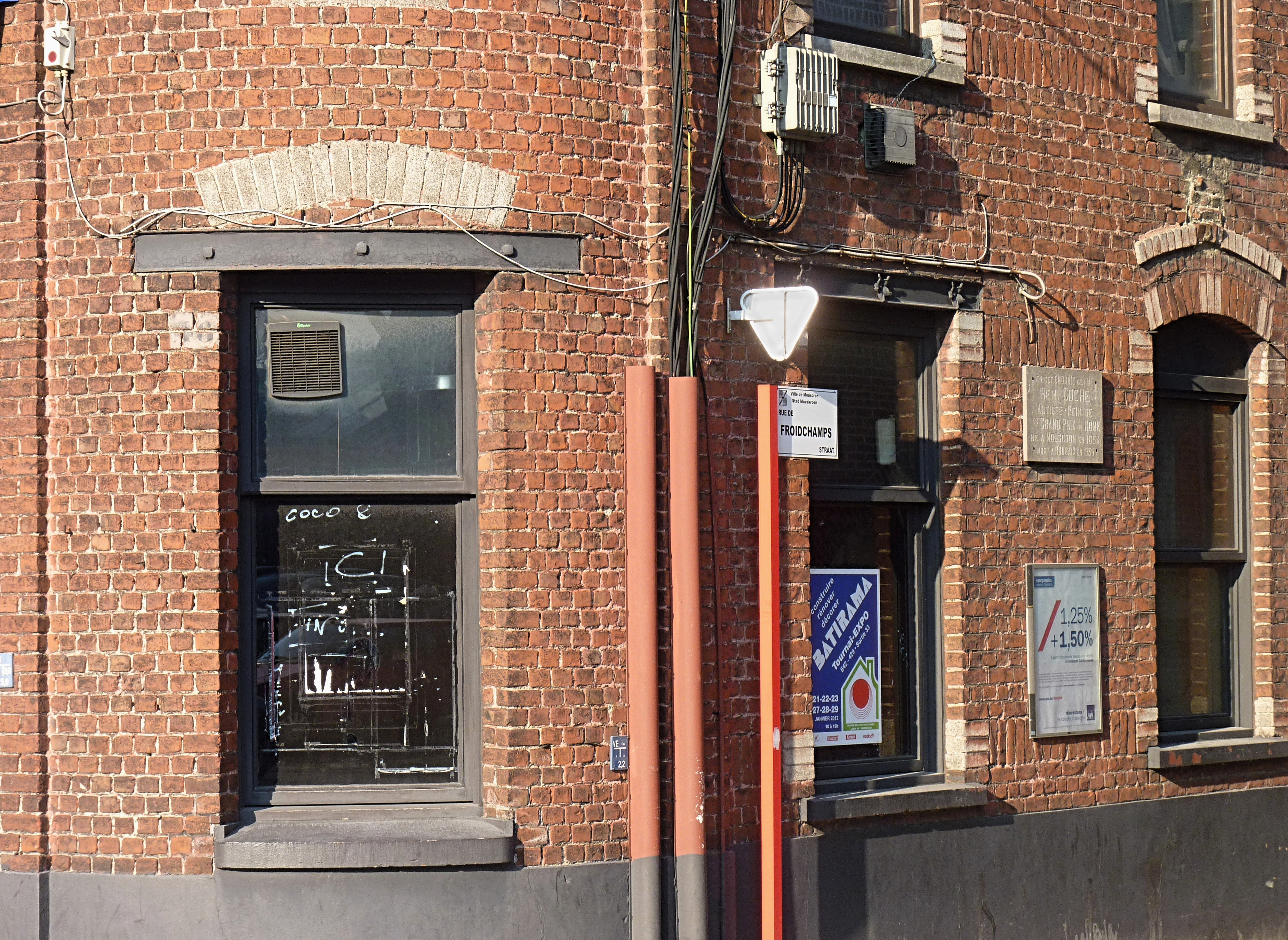 Place where was born the painter Rémy Cogghe (born Rémi Coghe), a commemorative tablet is affixed on the wall.